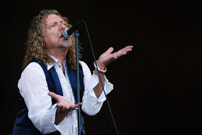 Robert Plant performing with Alison Krauss at the 2008 Bonnaroo Music Festival in Manchester, TN.